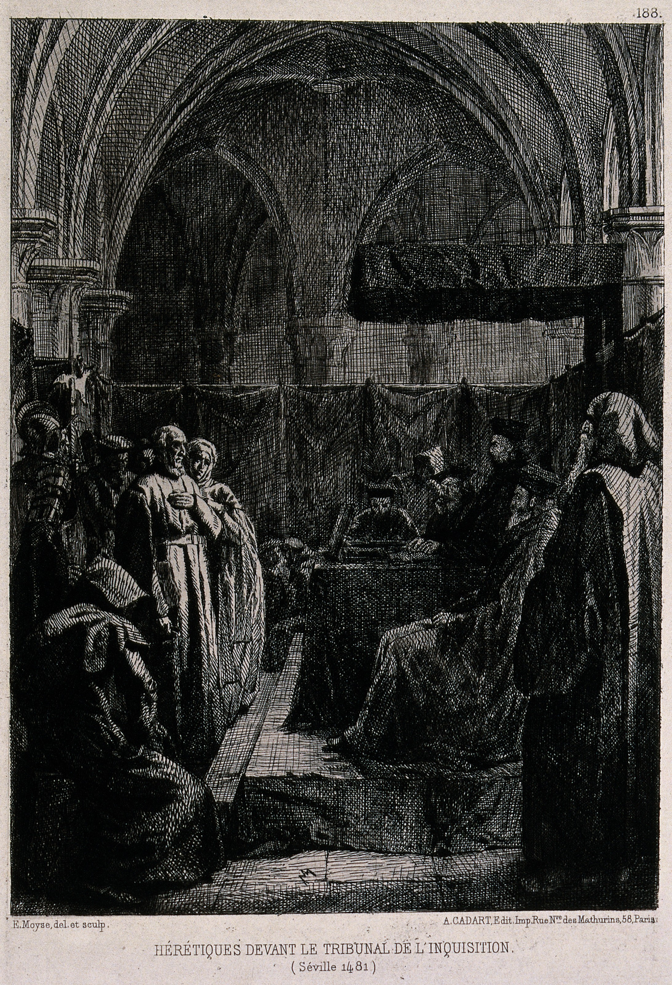 Accused heretics standing before a tribunal of the Spanish Inquisition in Sevilla. Etching by E. Moyse. Iconographic Collections Keywords: Edouard Moyse